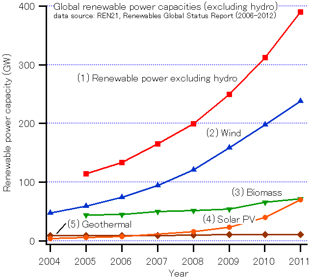 Global Renewable Power Capacities (excluding hydro)